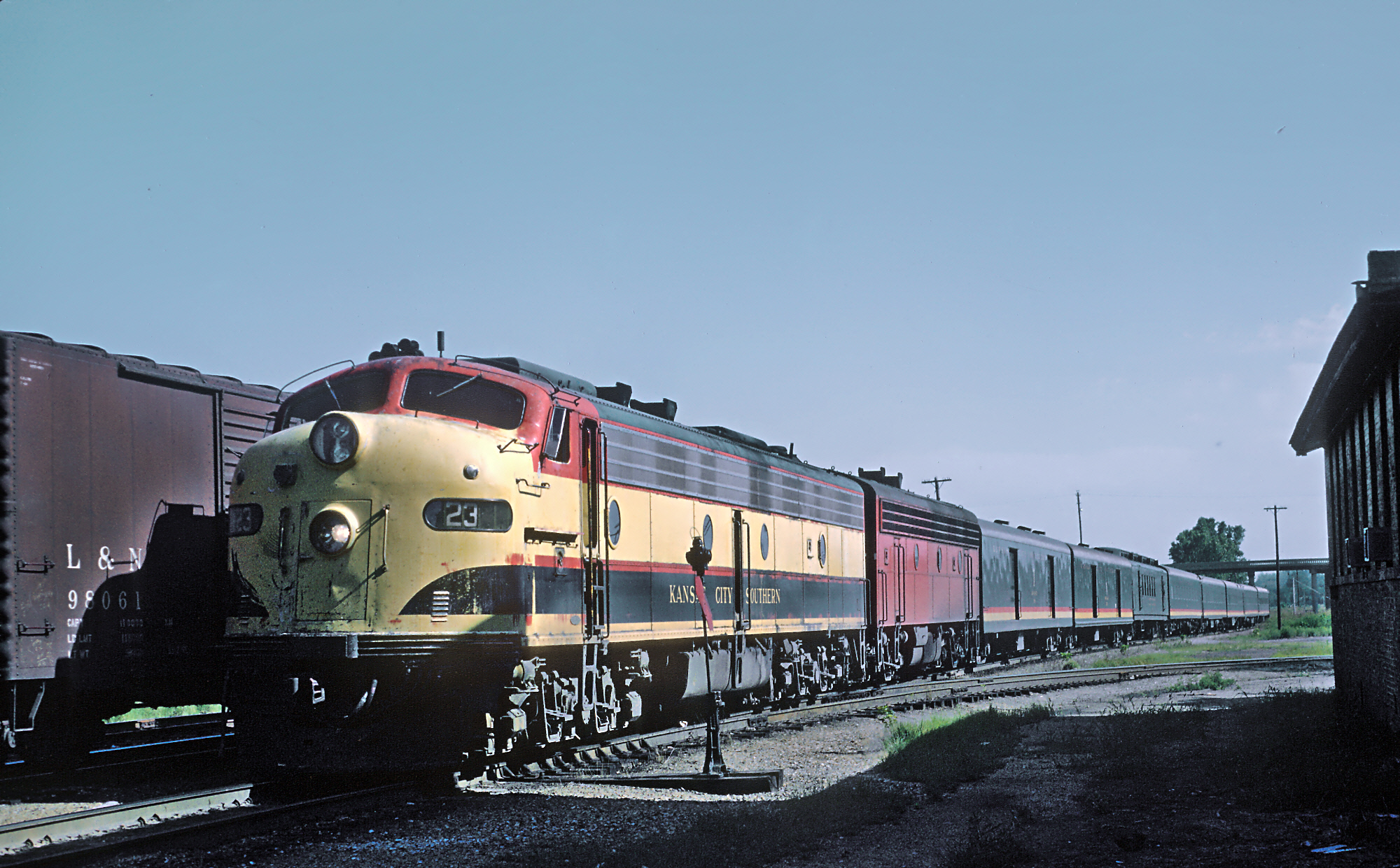 KCS E9M 23 with Train 2, The Southern Belle at the Pittsburgh, Kansas station on July 30, 1967. 23 was built as E3 #3 and rebuilt in Oct. 1952. These are Roger Puta's photos.